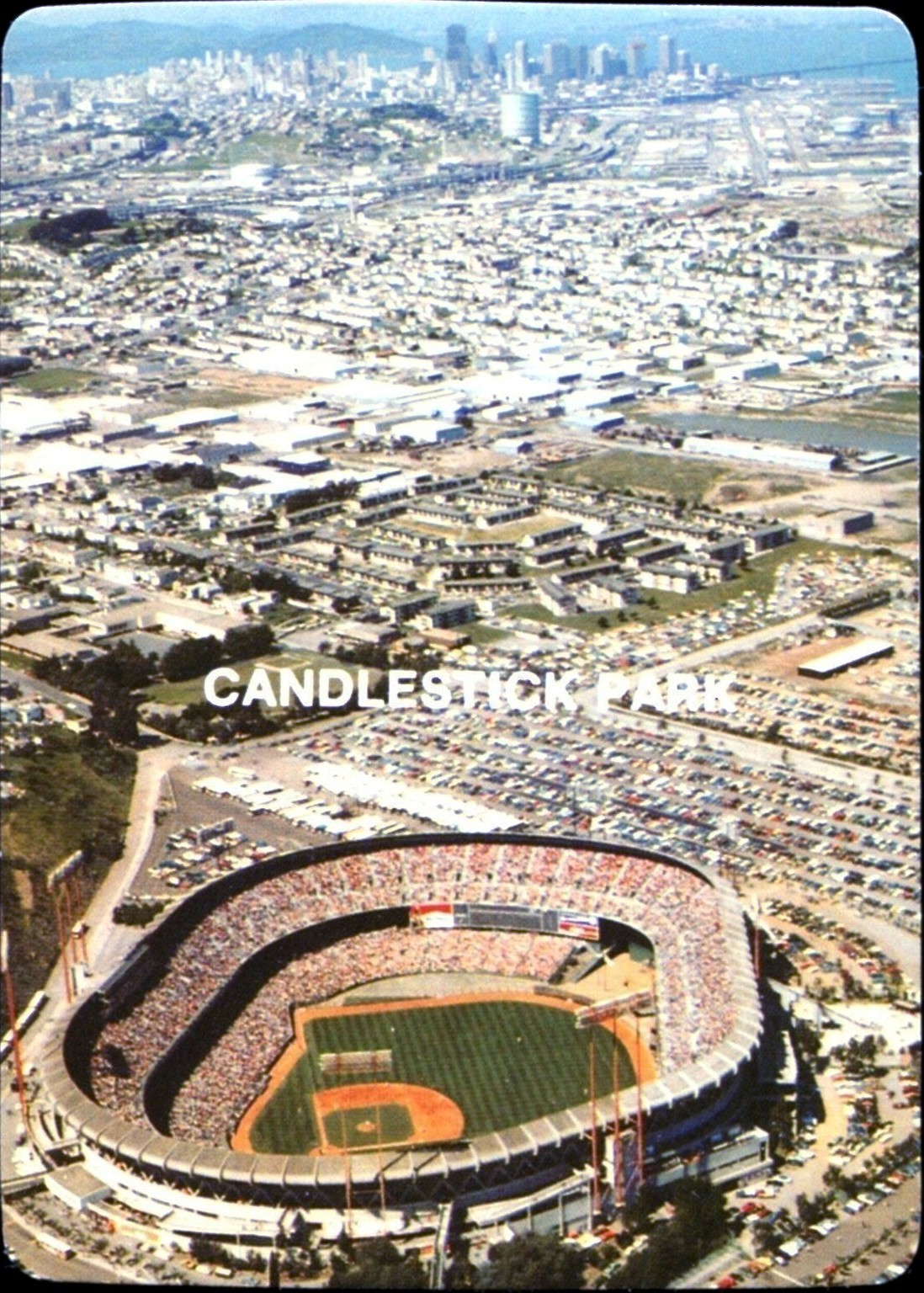 The checklist card of the 1985 Mother's Cookies San Francisco Giants trading cards set. An aerial photograph of Candlestick Park in front of appears on the front of the card and a checklist of all 28 of the trading cards in the set appears on the back.